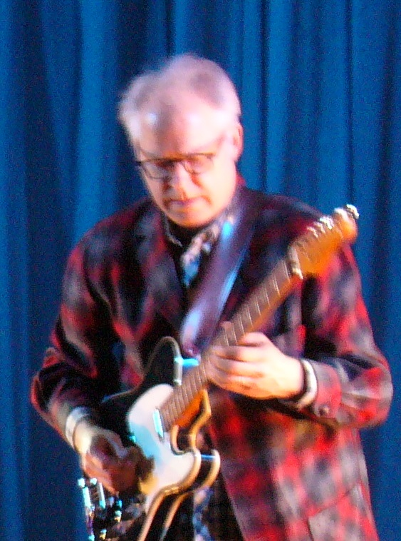 Bill Frisell at Vossajazz April 11, 2014